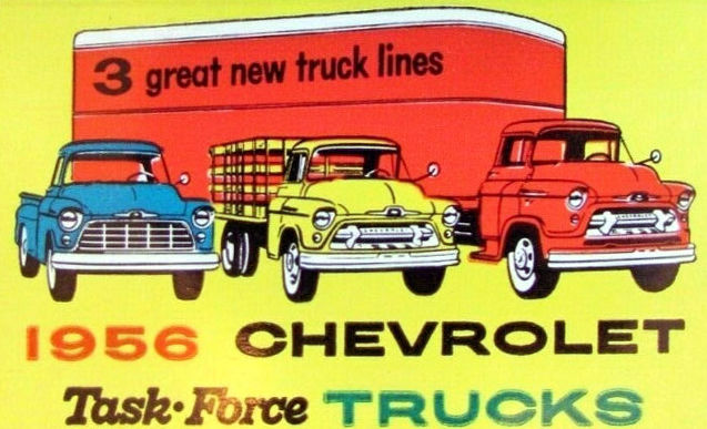 Jack Dankel Chevrolet - Matchcover - Allentown PA